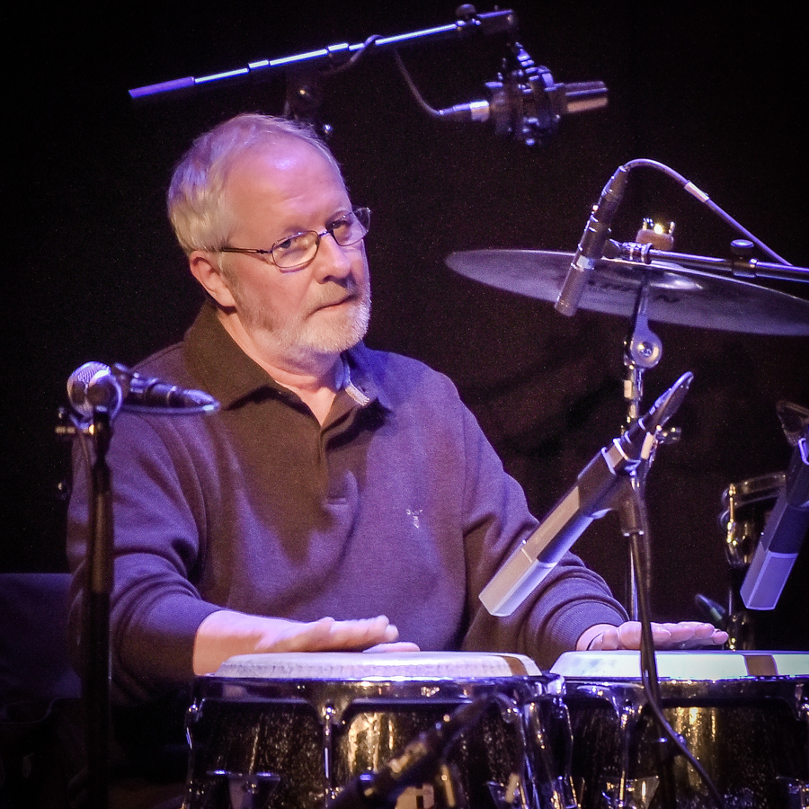 Finn Sletten in concert at Cosmopolite in 2017.